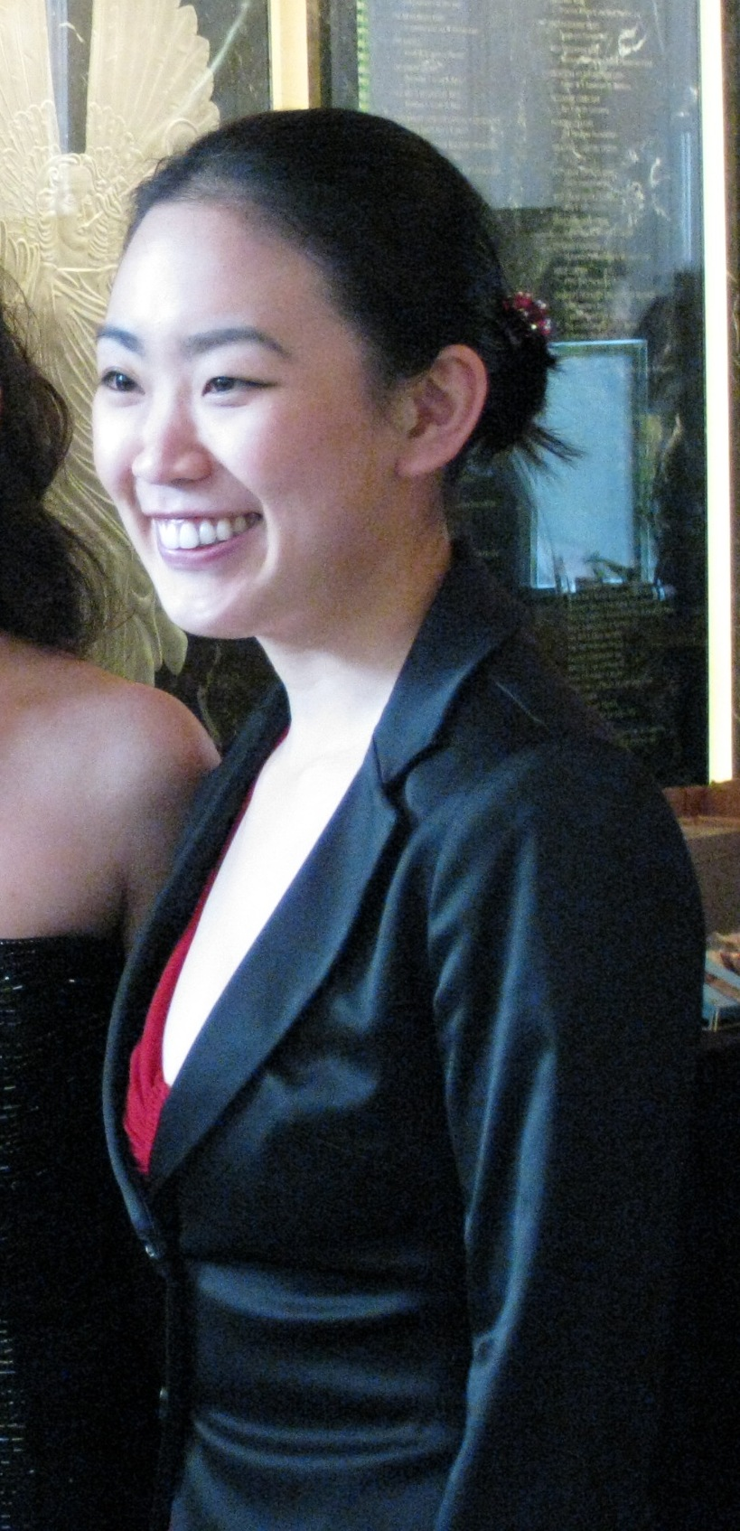 Yoonjung Han - Thirteenth Van Cliburn International Piano Competition competitor - Fort Worth, Texas - 2009 06 07.jpg